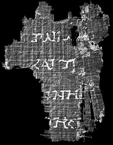 The 7Q5 fragment in contrast